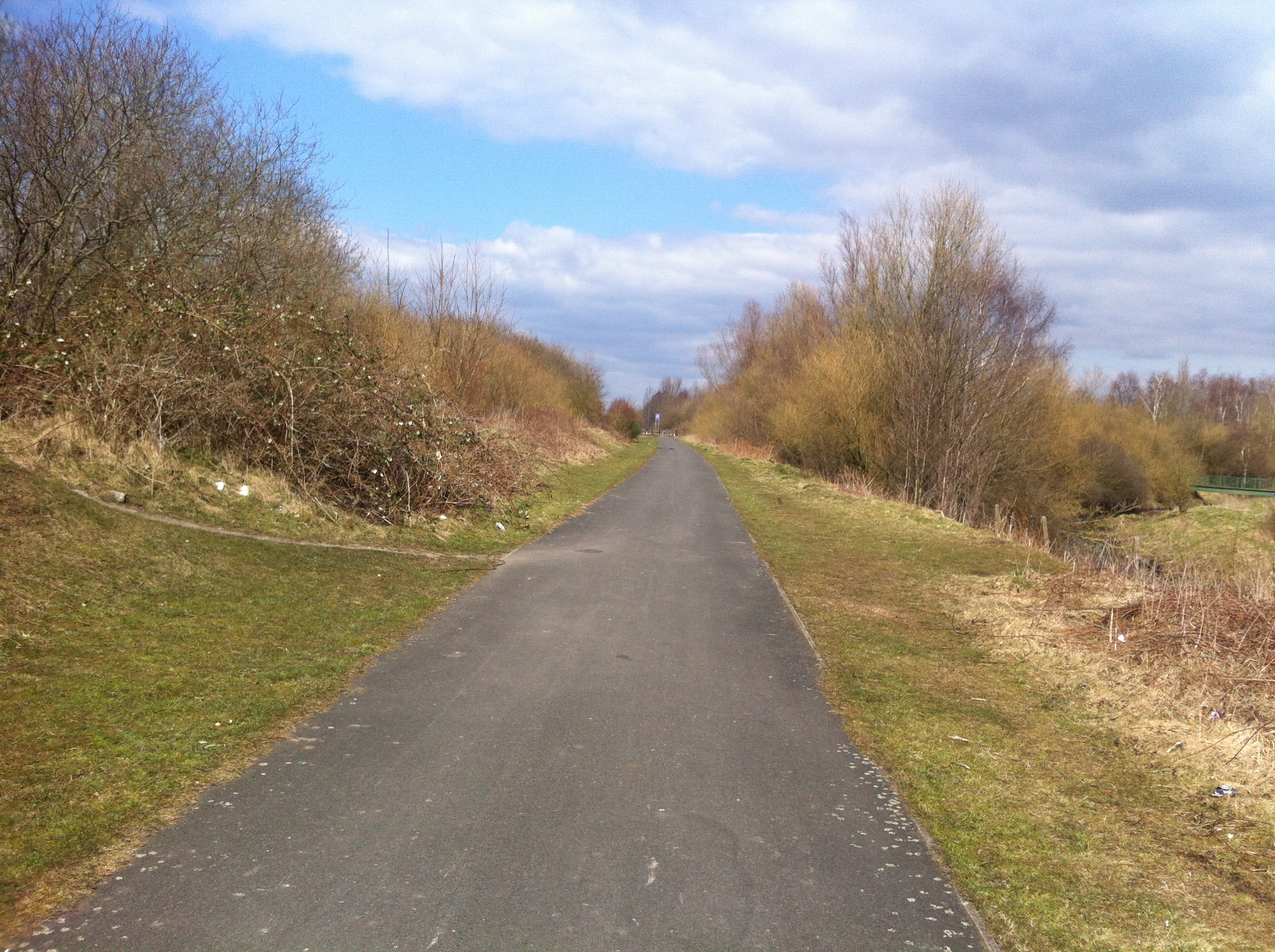 The site of the old Rushall railway station which was opened in 1849 but closed in 1909 but the track was still used until it was removed.